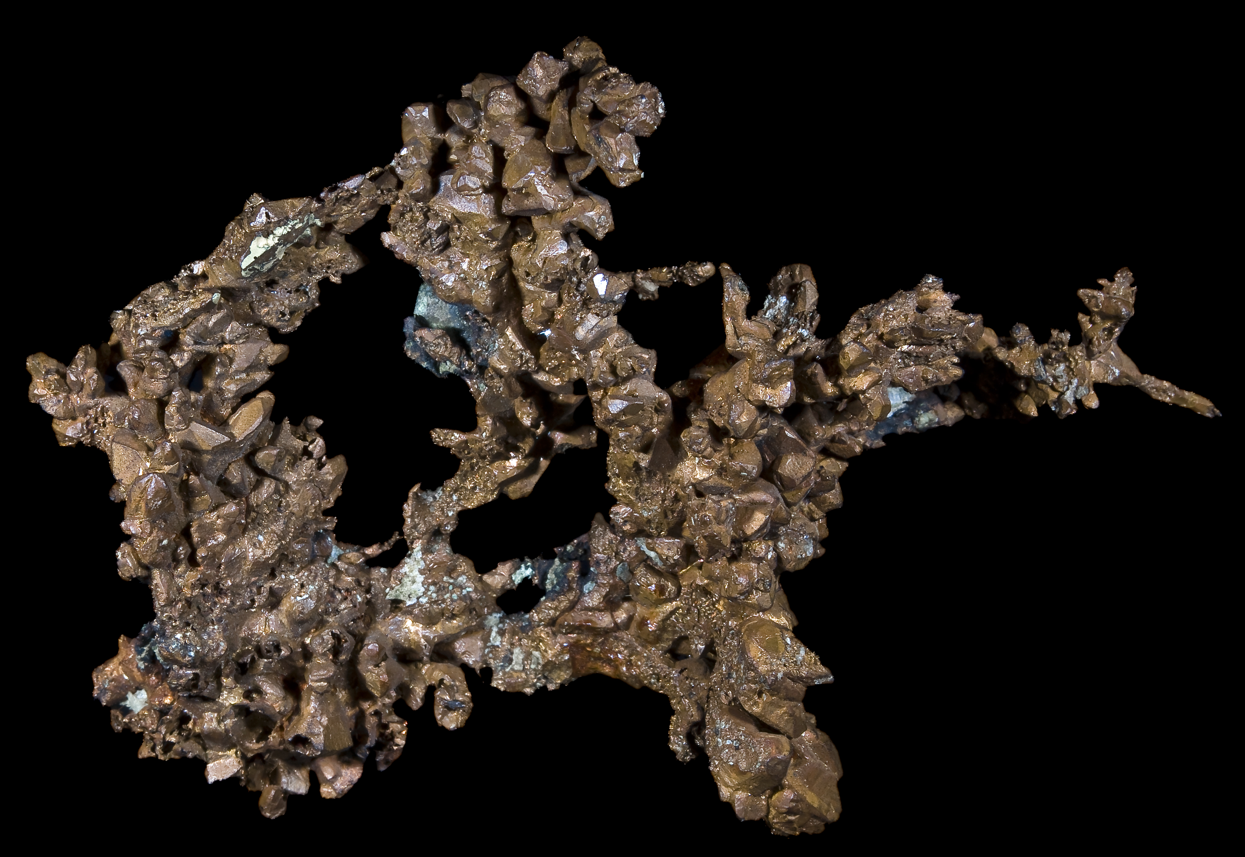 Crystals of native copper Locality : Lake Superior, Keweenaw County, Michigan, USA Size : 12 × 8.5 cm